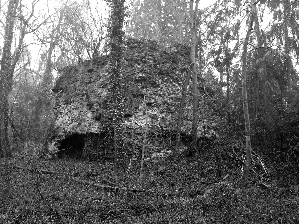 The north-eastern tower ruins of the former castle Haus Hagenbeck, Dorsten-Holsterhausen, Germany